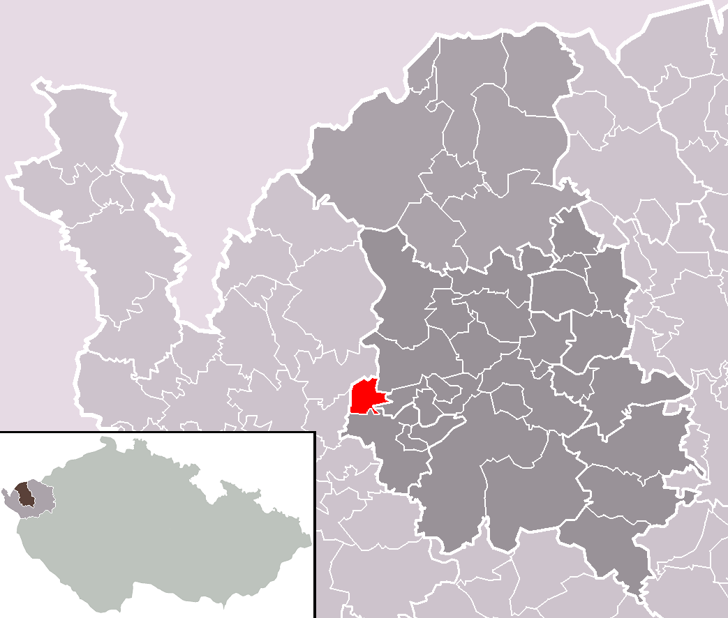 Location of Kaceřov municipality within Sokolov District and administrative area of Sokolov as a Municipality with Extended Competence.